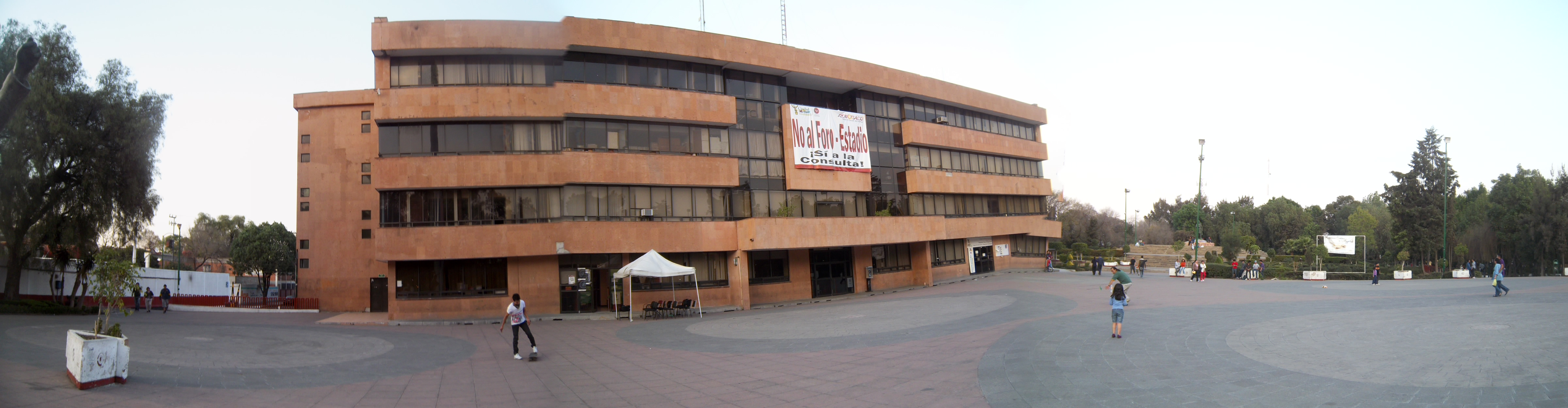 Overview of the Plaza Cívica Fernando Montes de Oca and the borough building in Azcapotzalco, Mexico City.